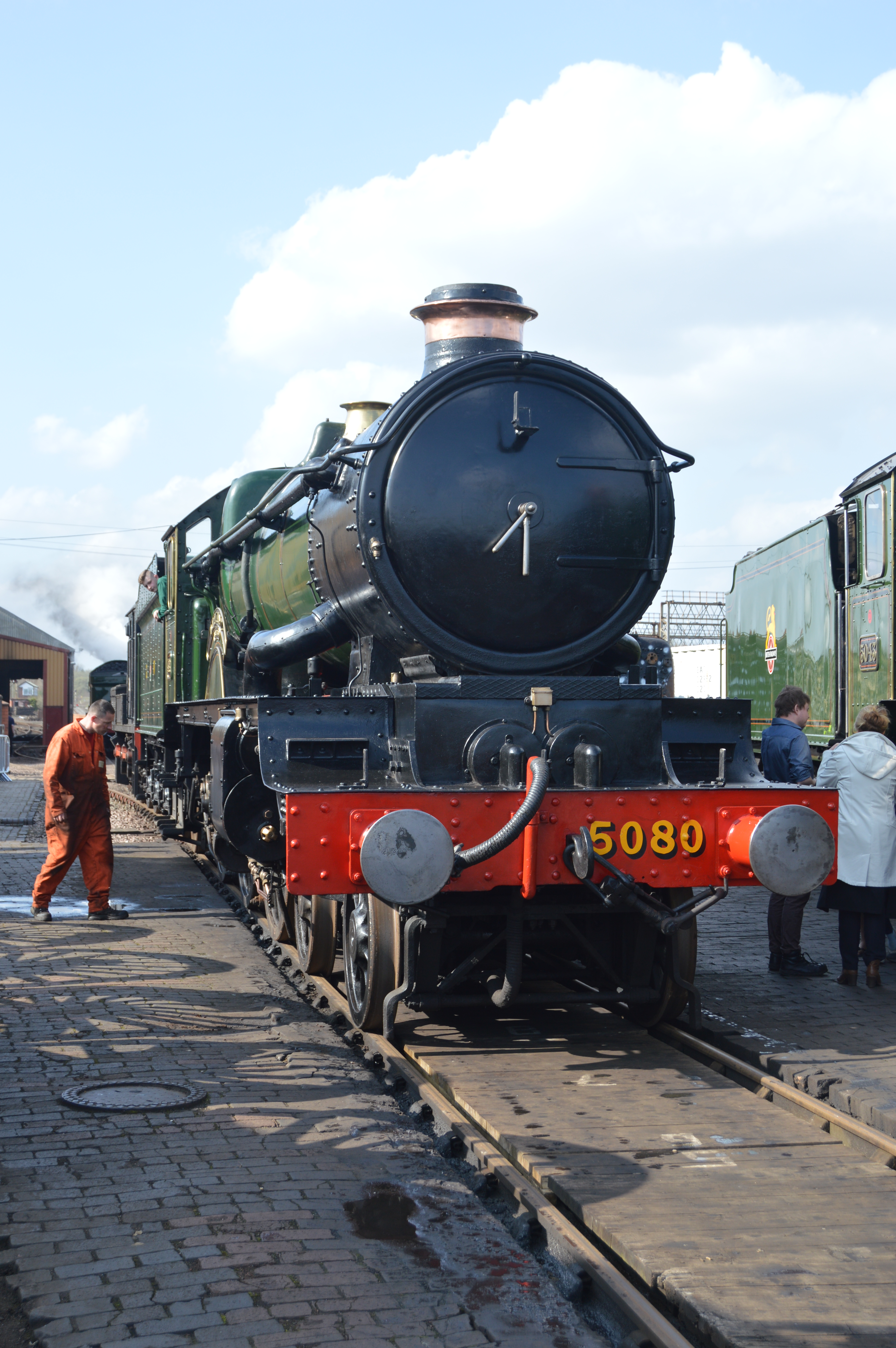 Currently a static exhibit awaiting an overhaul 5080 Defiant is sat waiting for 5043 to be moved off it's turntable road prior to being taken back to the shed.